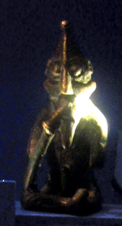 A statue of the Norse god Freyr, dated to the 11th century. Found in 1904 on the grounds of the farm Rällinge in Lunda parish, Södermanland, Sweden.